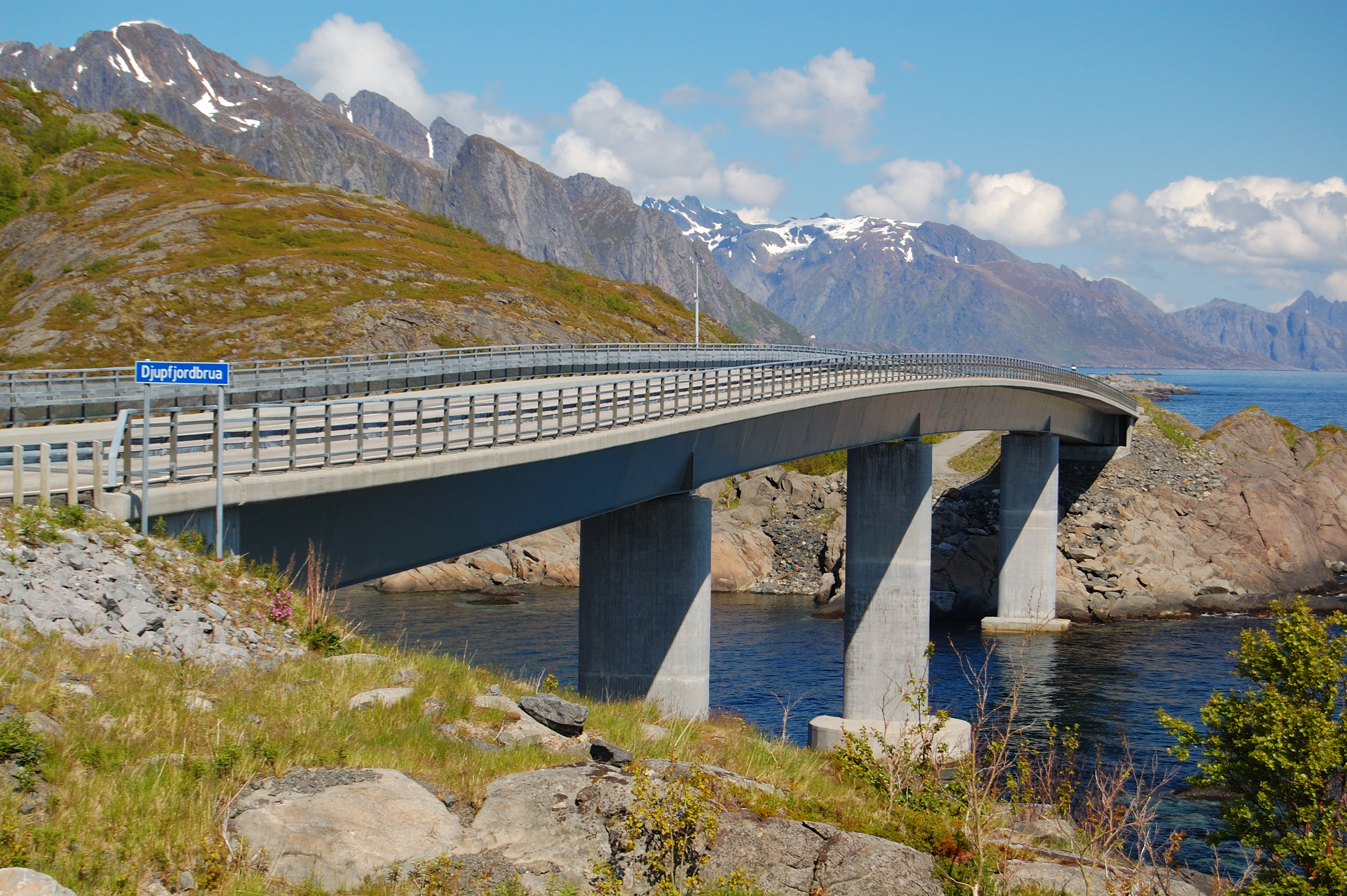 The Djupfjord Bridge in Lofoten, Norway.